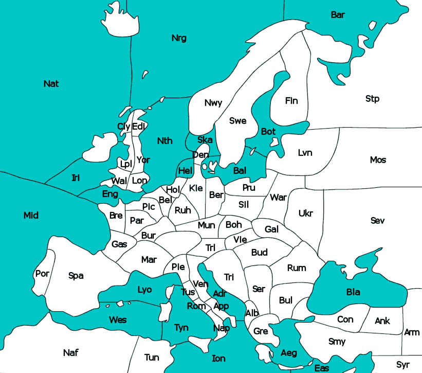 Areas for the board game Diplomacy